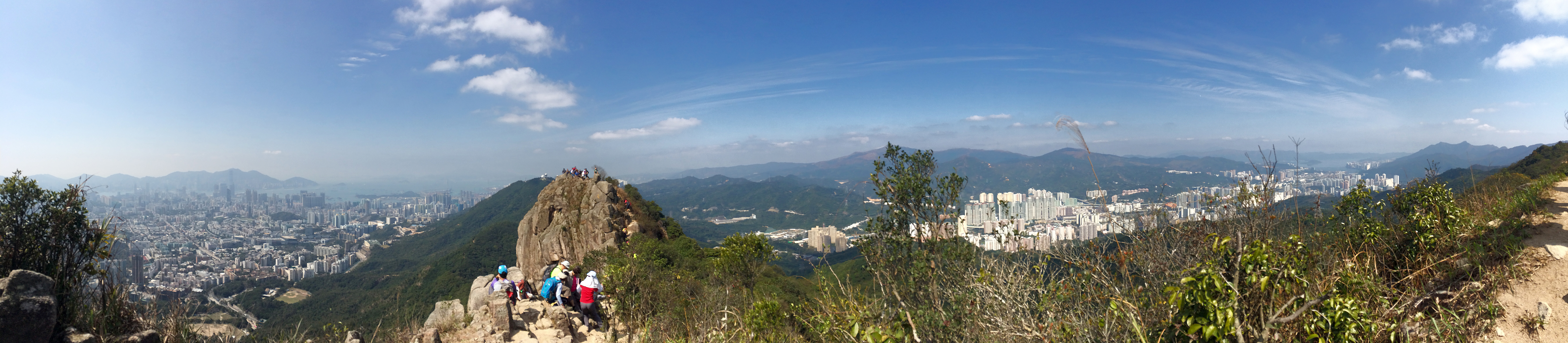 Lion Rock Pano